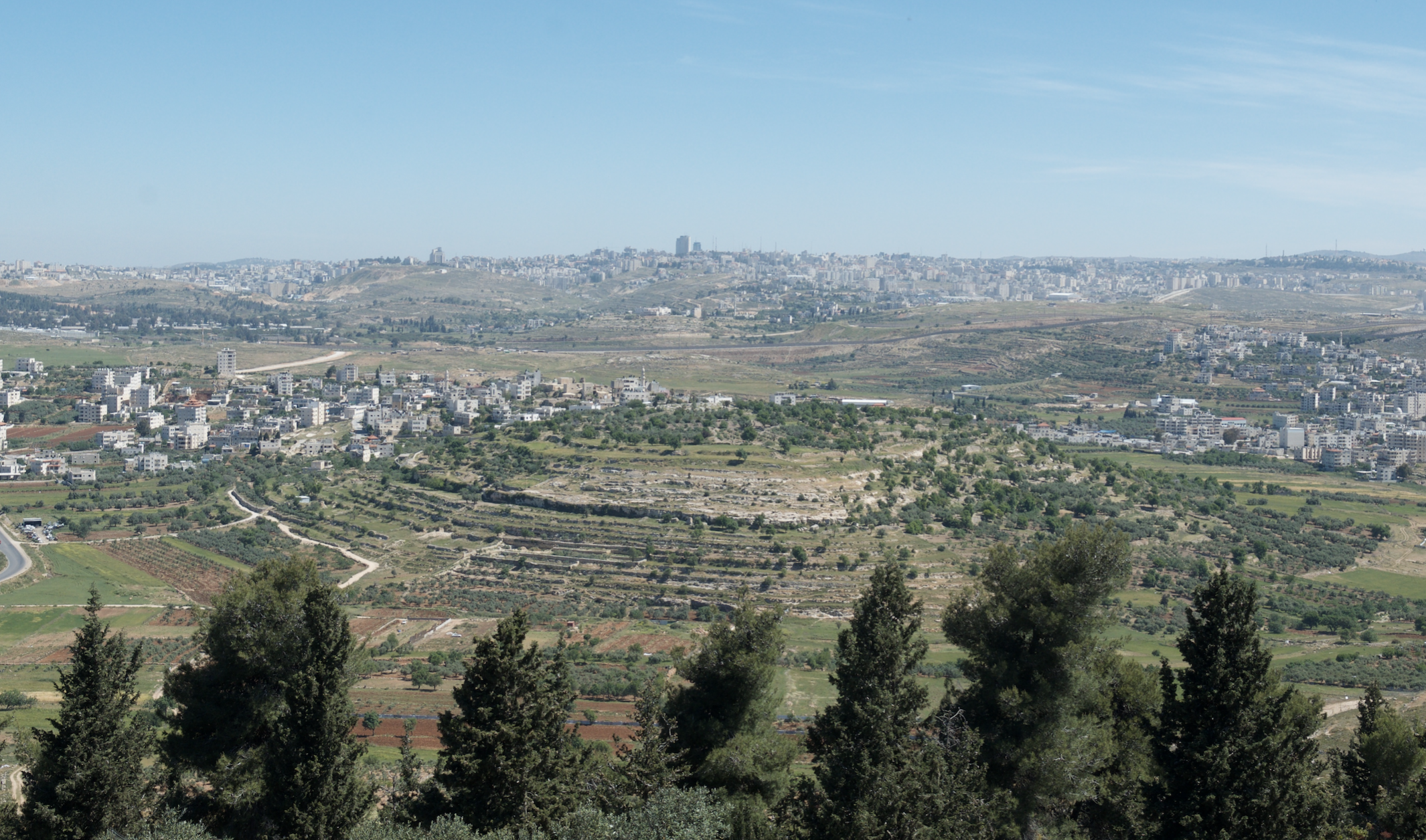 Gibeon as seen from Nabi Samwil